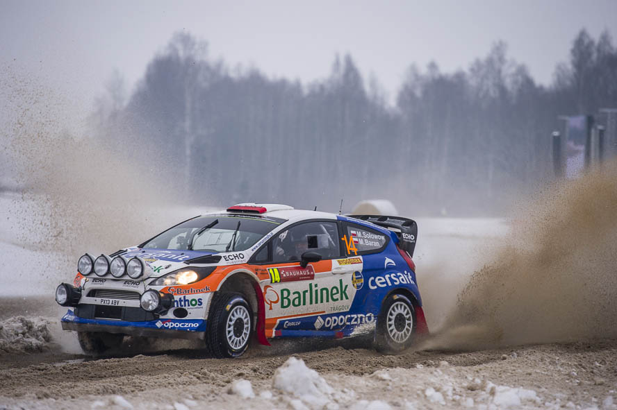 Rally Sweden 2014 Ford Fiesta RS WRC,Kirkener 2,M-Sport WRT,M-Sport World Rally Team,Maciej Baran,Michal Solowow,Motorsport,Rally,Rally Sweden,Rallye,Rallye Schweden,SS5,WP5